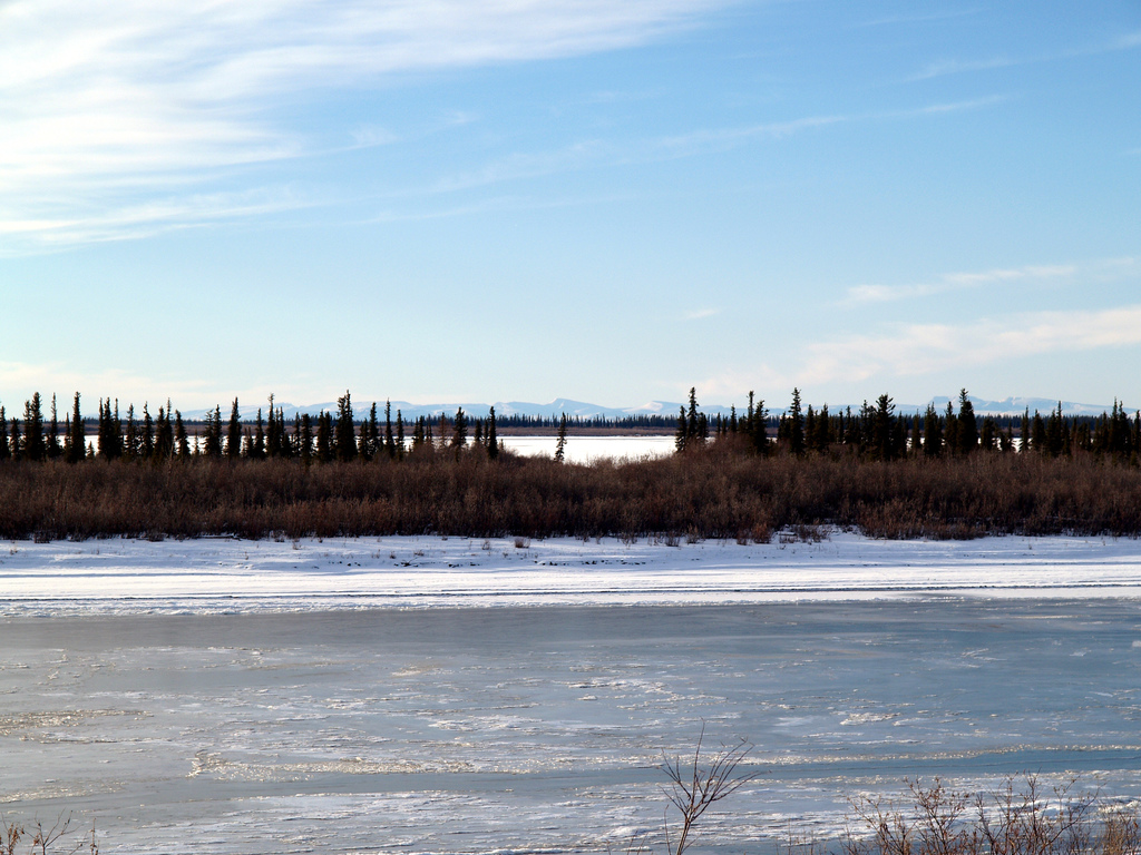 The Mackenzie River is starting to freeze